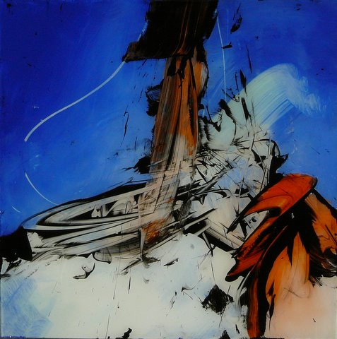 Reverse painting on glass of german paintress Regina Reim, picture 2